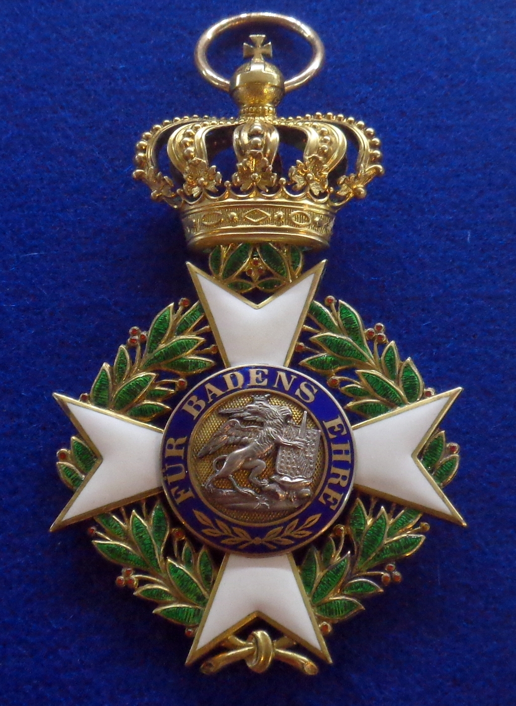 Military Order of Karl Friedrich, badge of Grand Cross, reverse, 1914-1918. Grand Duchy of Baden. The exhibition of the Tallinn Museum of Orders of Knighthood, Estonia.